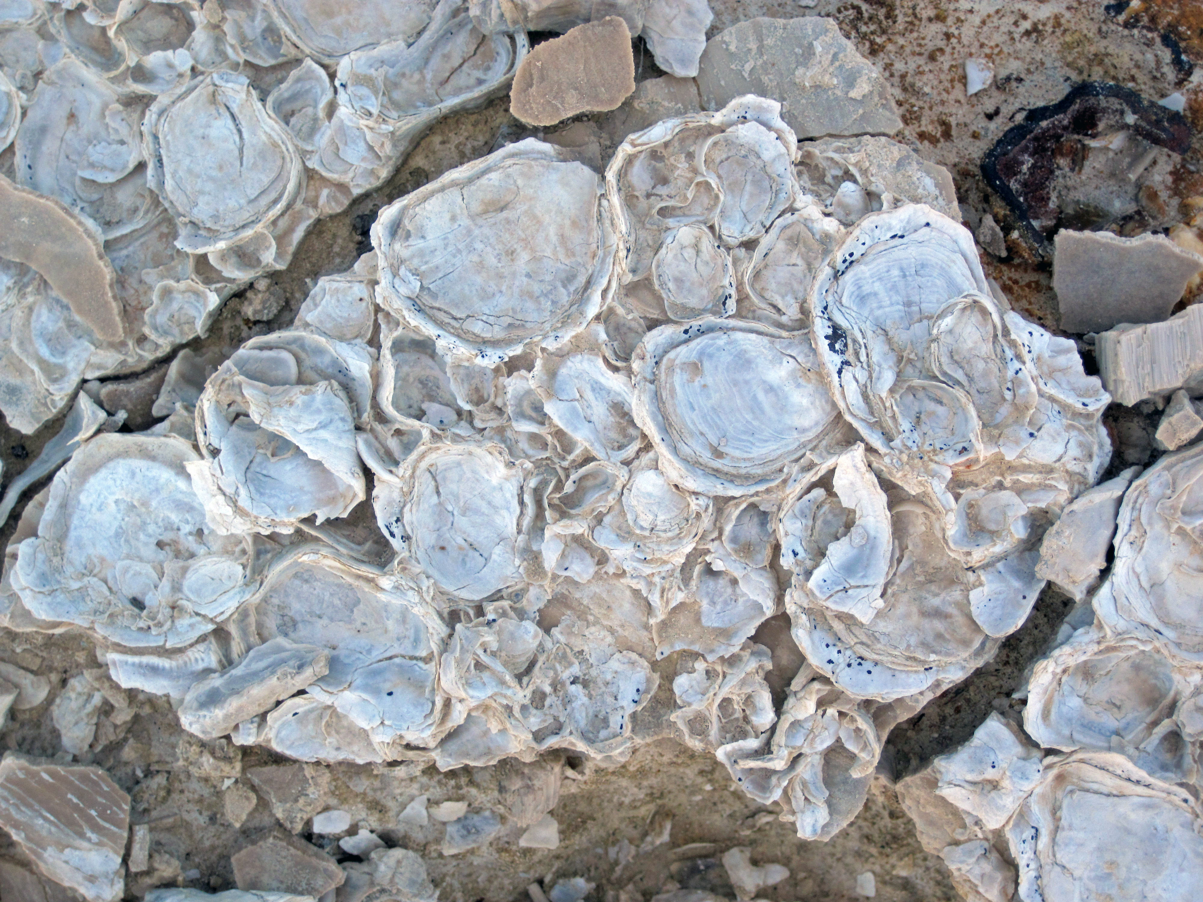 Pseudoperna congesta (Conrad in Nicollet, 1843) - fossil oysters encrusting a Platyceramus platinus inoceramid bivalve shell in the Cretaceous of Kansas, USA. The light-colored, irregularly-shaped structures shown above are Pseudoperna fossil oysters that are encrusting a portion of a large inoceramid bivalve shell that is eroding from Cretaceous-aged chalk in western Kansas. Inoceramids included the largest clams in Earth history - they are known to have reached about 10 feet in size (for a complete specimen, see: Inoceramids are often described as having a turkey platter morphology - they had large, relatively thin shells that spread out their weight on soft, fine-grained, nonlithified chalk seafloors. Hard-substrate encrusting organisms such as oysters could not occupy such soft seafloors so they preferentially attached to the mineralized biologic surfaces of inoceramids. Classification of encrusting Pseudoperna oysters: Animalia, Mollusca, Bivalvia, Ostreoida, Ostreidae Classification of host inoceramid bivalve: Animalia, Mollusca, Bivalvia, Pteriomorphia, Praecardioida, Inoceramidae Stratigraphy: Smoky Hill Chalk Member (a.k.a. Smoky Hills Member), Niobrara Formation, Upper Cretaceous Locality: Castle Rock chalk badlands, north of Gove County Road K & east of Castle Rock Road, 23 kilometers south-southeast of the town of Quinter, eastern Gove County, western Kansas, USA